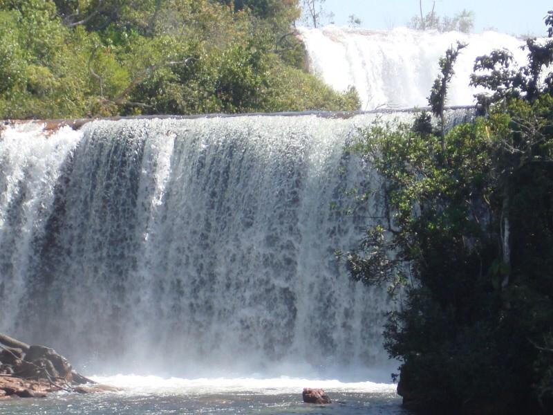 Cachoeira do Juba